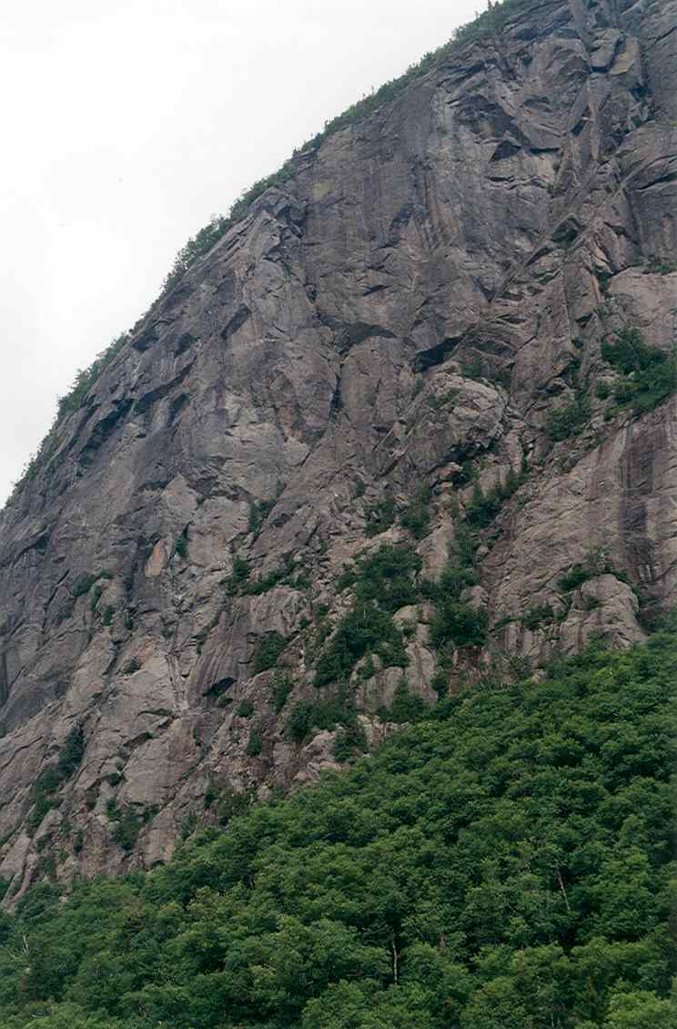 Wallface Mt., Adirondacks, NY, seen from Indian Pass